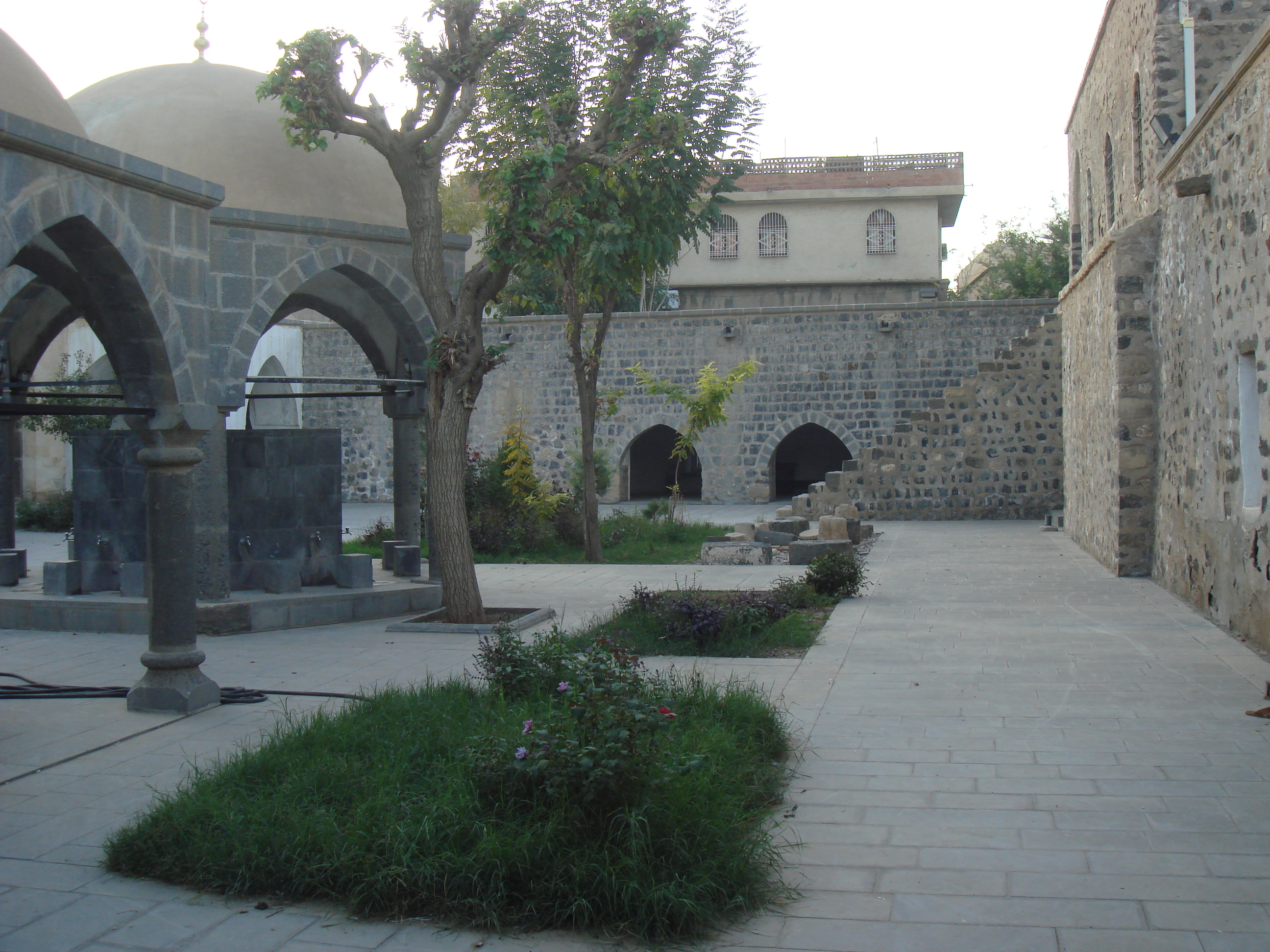 Mizgefta Mezin/Ulu Camii in Cizîra Botan/Cizre, 2009. Kurdî: Mizgefta Mezin a Cizîra Botan, 2009.